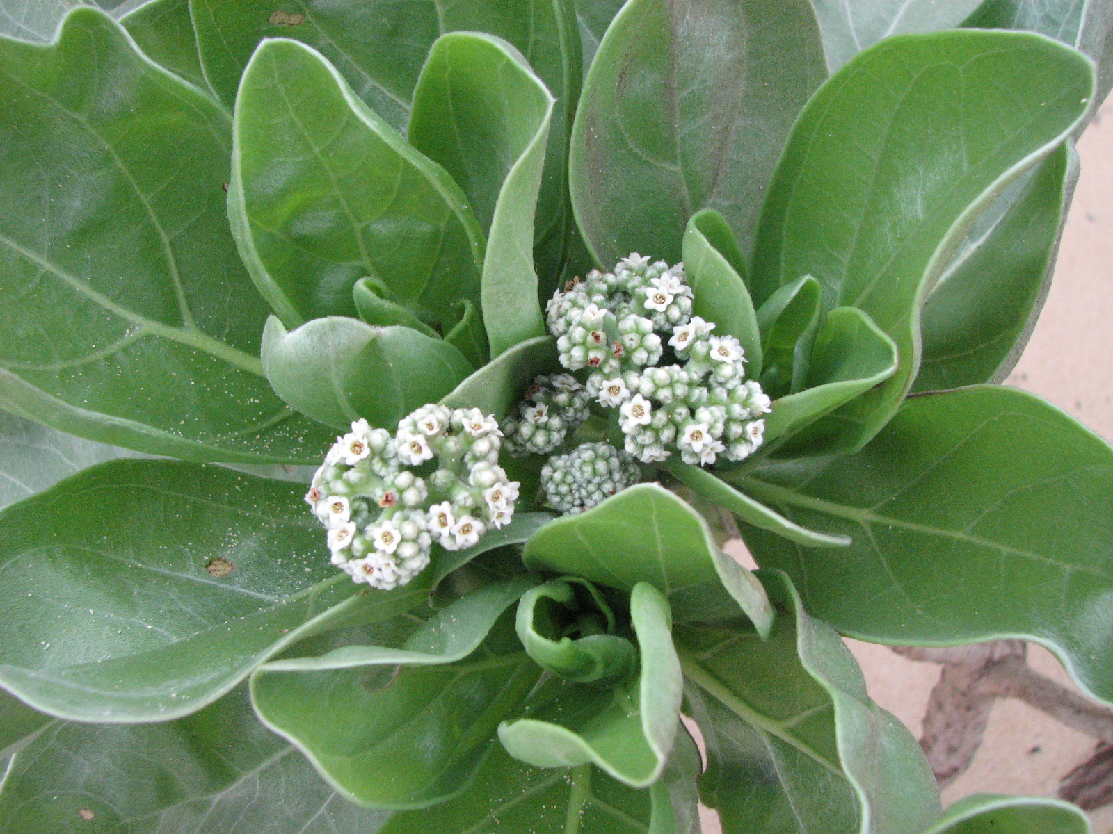 モンパノキの花(Flower of Heliotropium foertherianum)